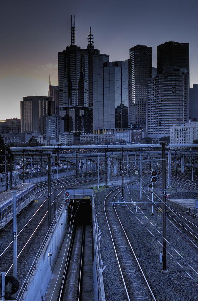 The Caufield loop portal of the Melbourne City Loop, in the former Jolimont Yard / Richmond Junction area.